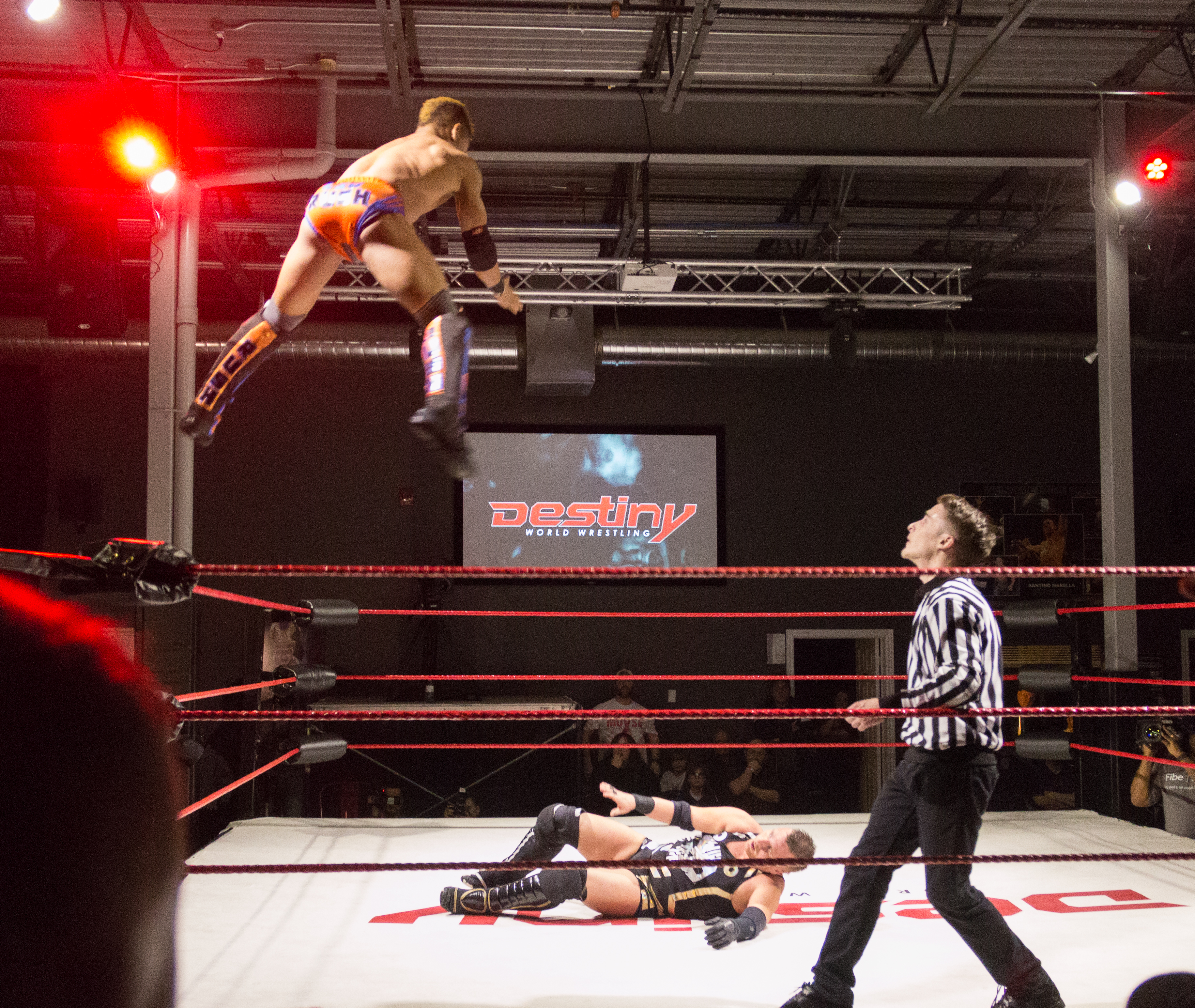 Lio Rush executing his Dragons Call finisher (aka a split-legged frog splash) onto Scotty O'Shea at a Destiny Wrestling show in Mississauga, ON